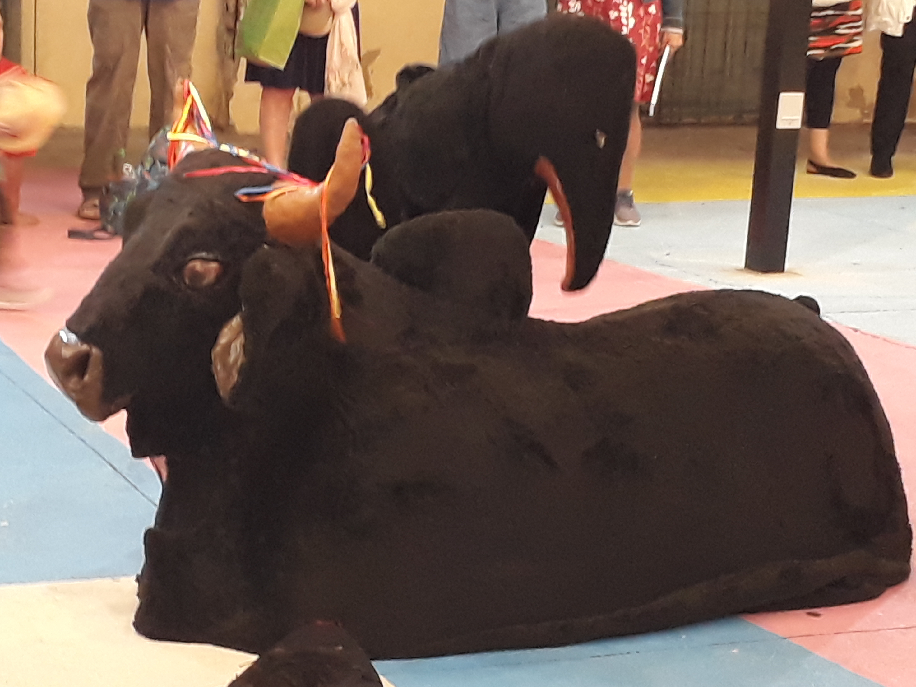 Public presentation of the brazil's folkloric group named "Boi-de-mamão do Bairro Pantanal" of the city of Florianópolis, southern Brazil.